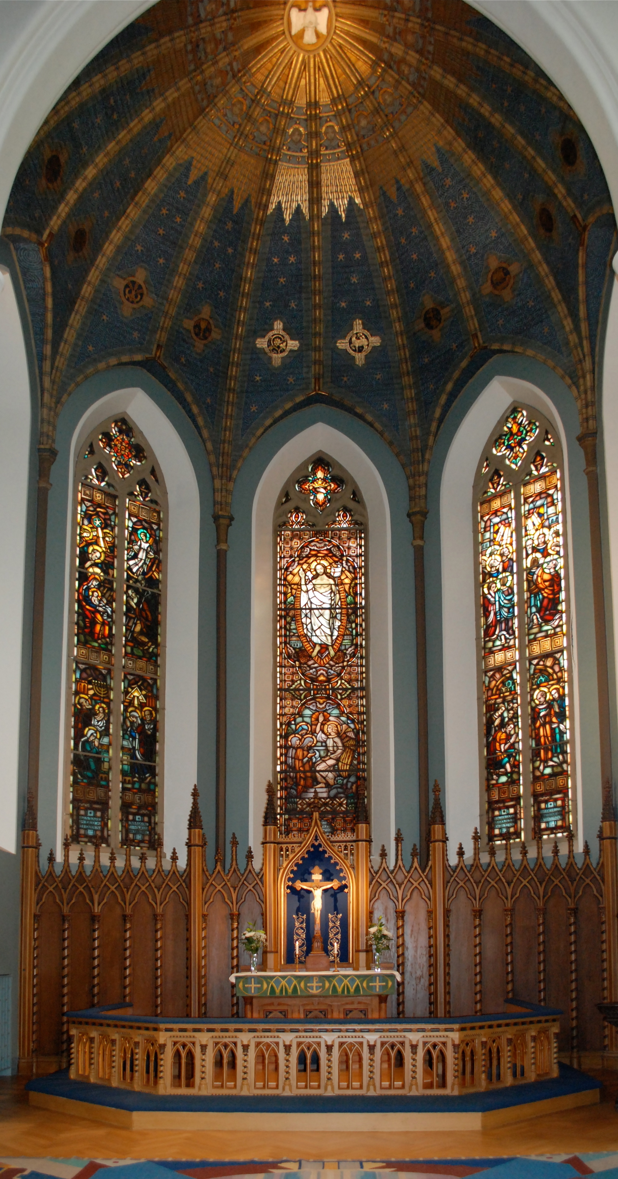 Hagakyrkan